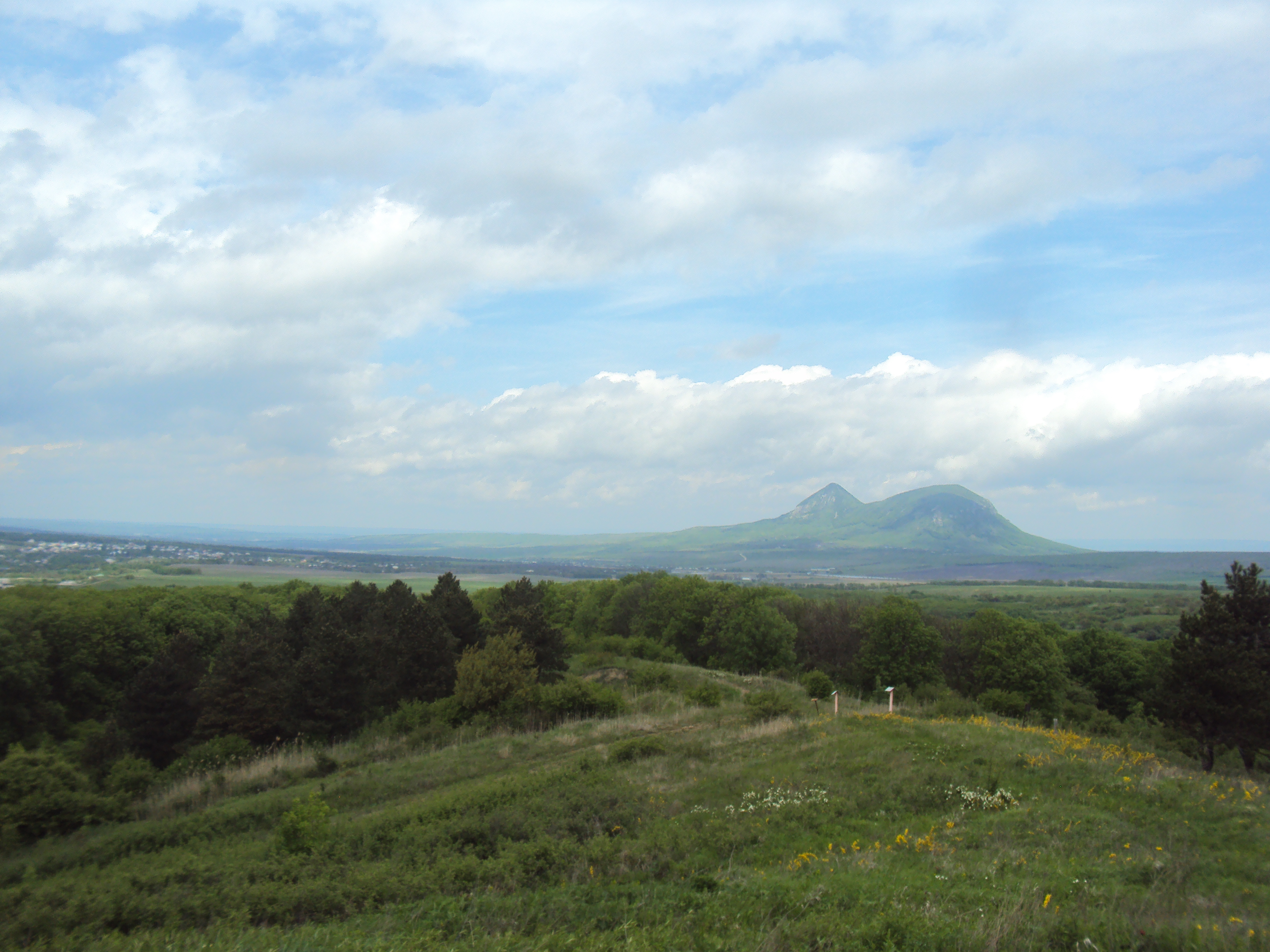 Mountain laccoliths 'Camel', Mineralnye Vody district